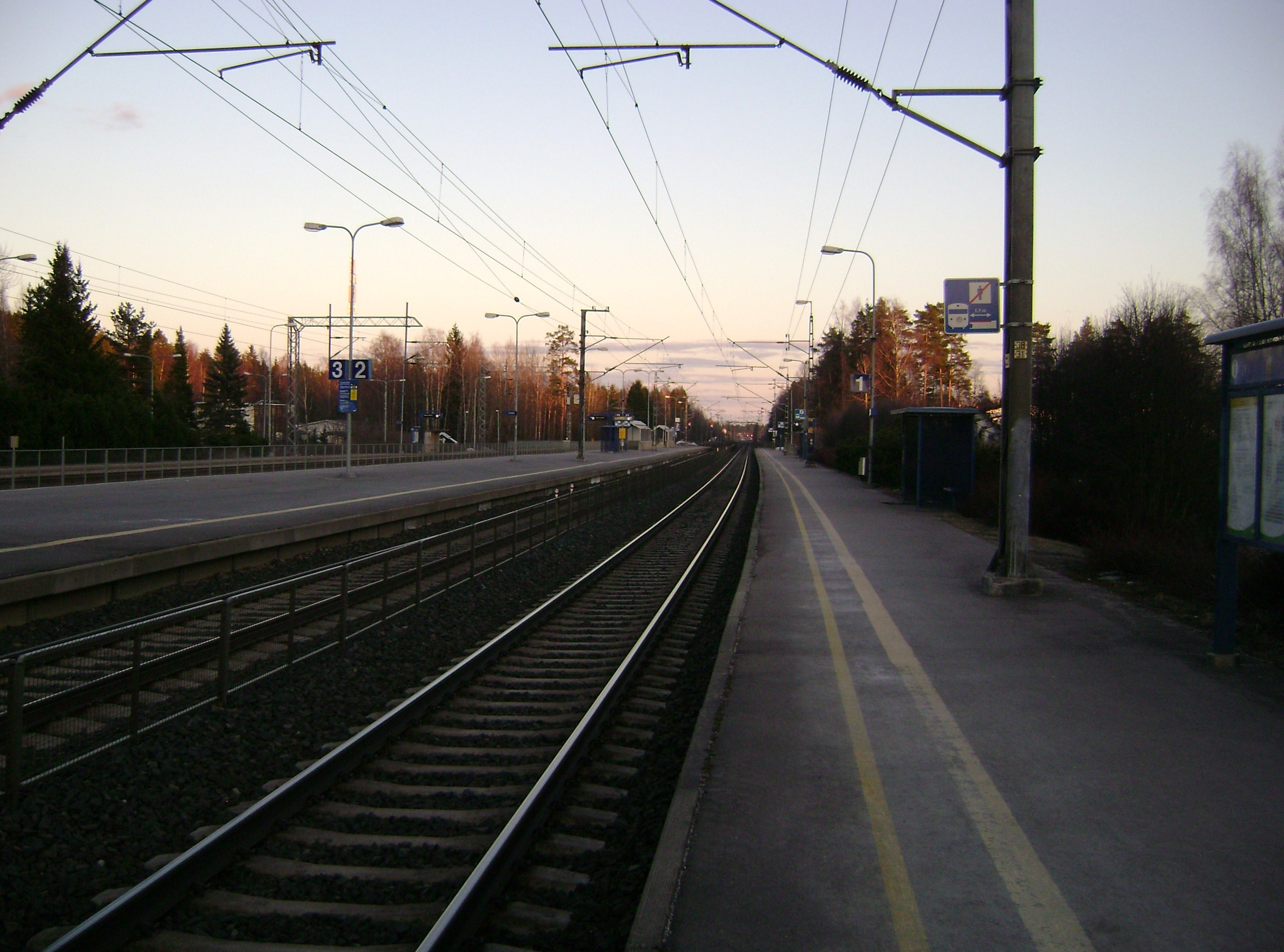 Saunakallio railway station in Järvenpää, Finland.